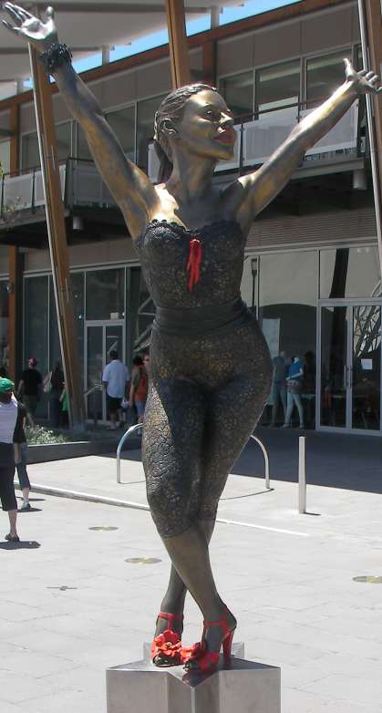 Bronze statue of Kylie Minogue by Peter Corlett at Waterfront City, Docklands, Victoria in Melbourne Docklands